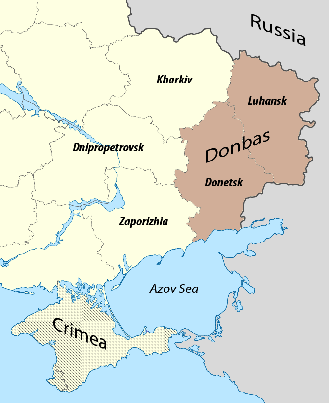 Map of the Donbass region within eastern Ukraine. Names of neighbouring oblasts are included. Crimea is hashed to represent the ongoing territorial dispute between Russian and Ukraine.